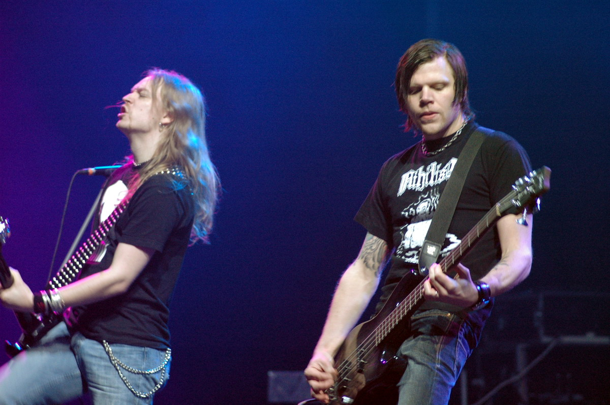 Katatonia band at Metalmania Festival 2005 in Poland - from left: Anders "Blackheim" Nyström, Mattias Norrman